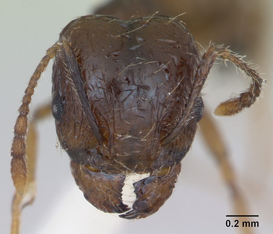 Head view of ant Pheidole williamsi specimen casent0173597.